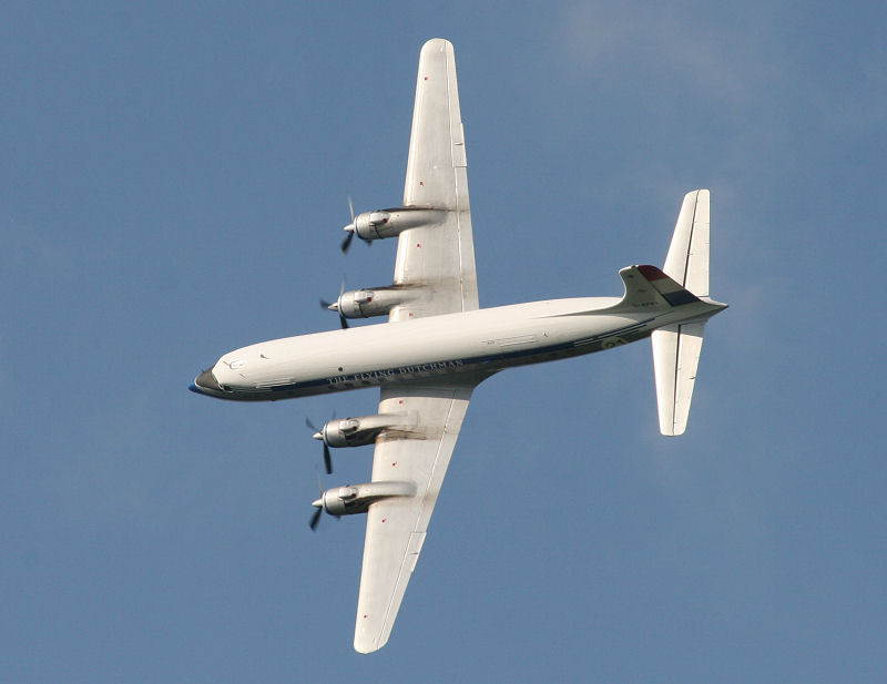 The Douglas DC-6A G-APSA seen during a flight display at Hamburg